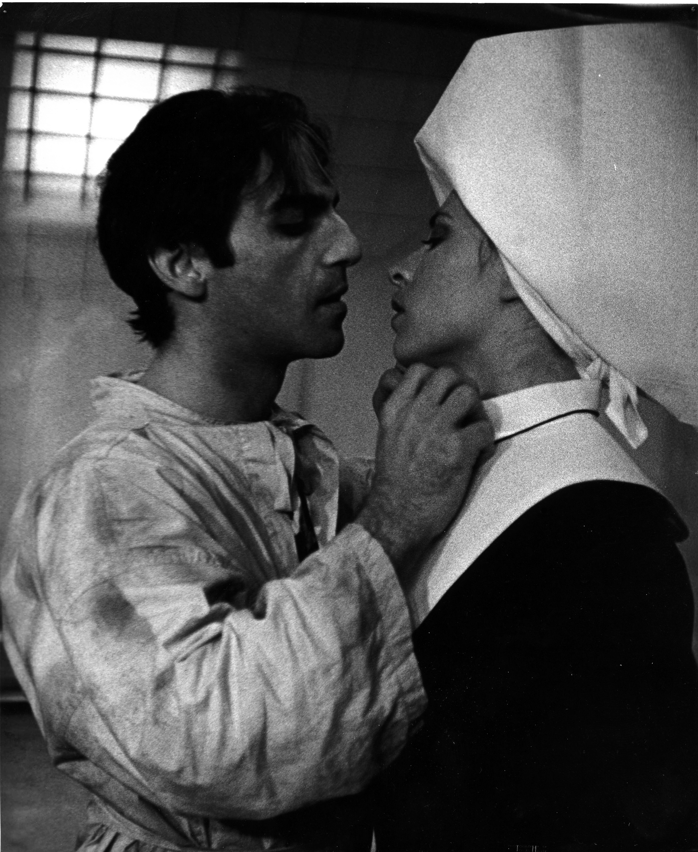 Bob DeFrank and Ann Crumb in a scene from Witkacy's "The Madman and the Nun," directed by Paul Berman at Theatre Off Park, NYC. This was a publicity shot for the production, printed in newspapers and is in the public domain.